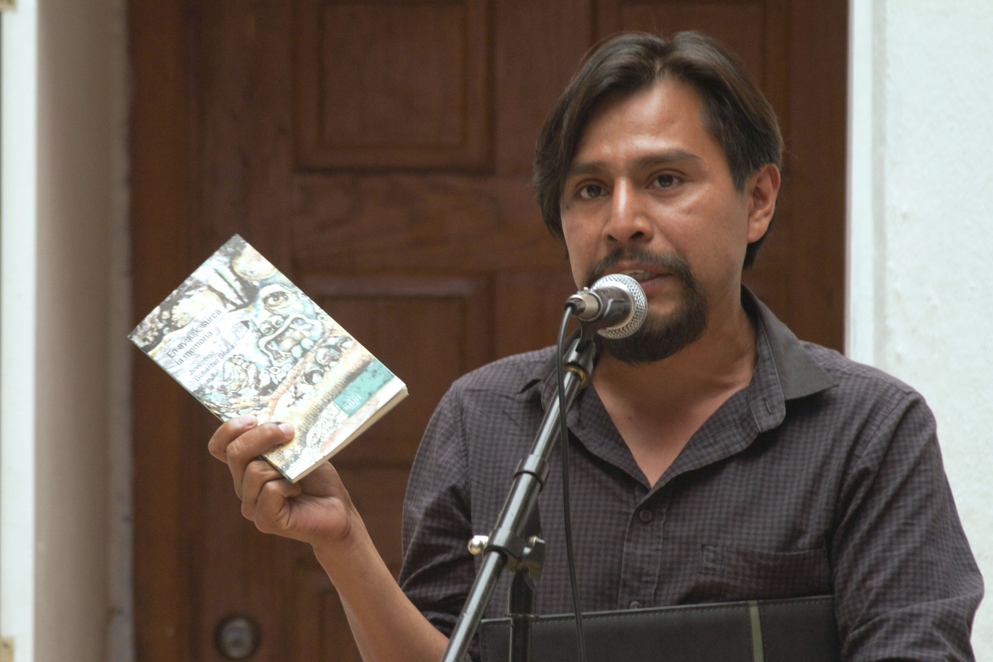 Mixe author Juventino Gutiérrez Gómez holding up book En ayuujk, surca la memoria